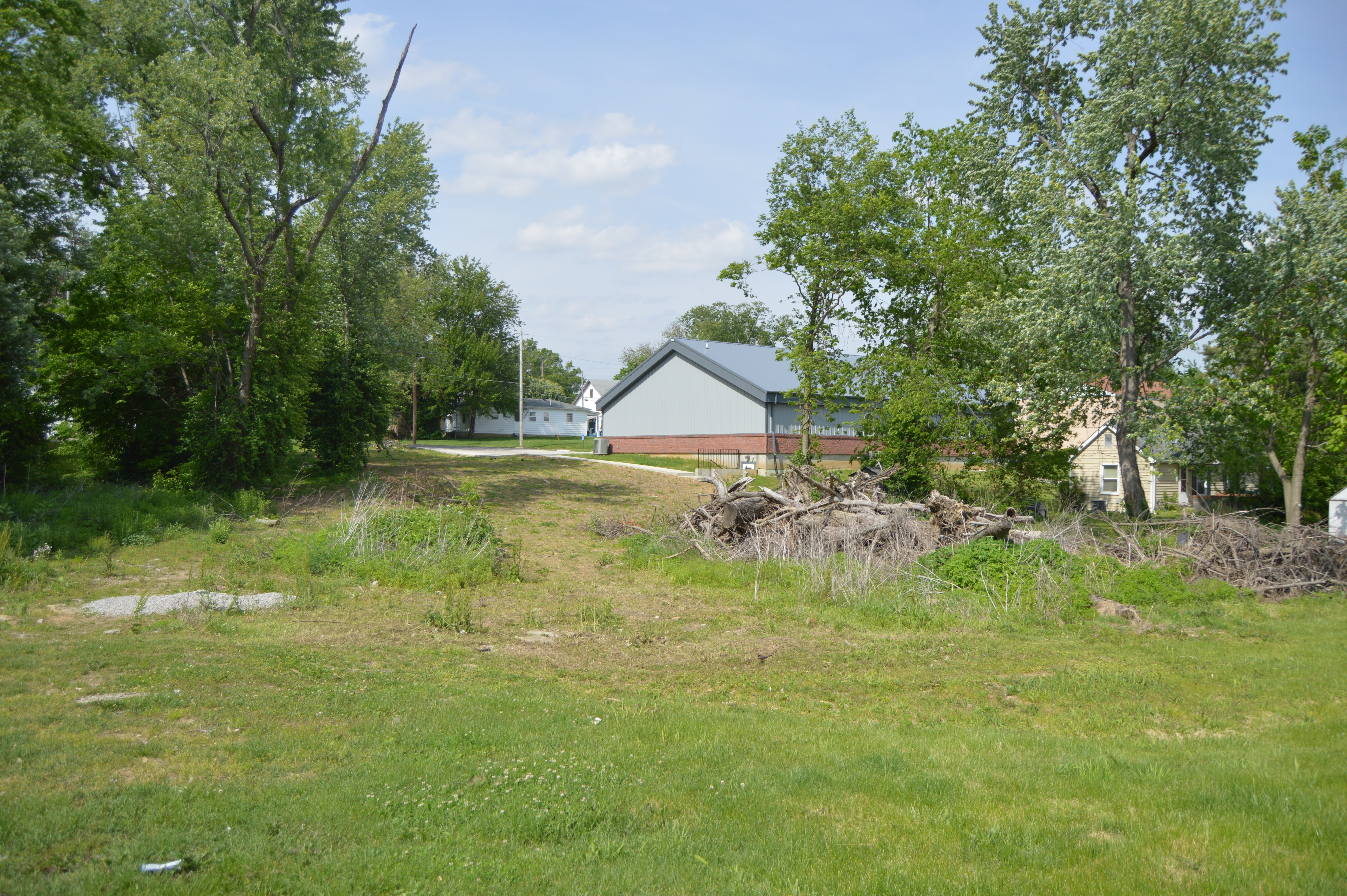 An empty lot on the northern side of College Street west of Tenth Street in Shelbyville, Kentucky, United States. This was formerly the site of St. John's Methodist Church, which was built in 1896; listed on the National Register of Historic Places in 1984, it has been demolished, but it has not yet been un-designated. The steel building in the background is the present church building.